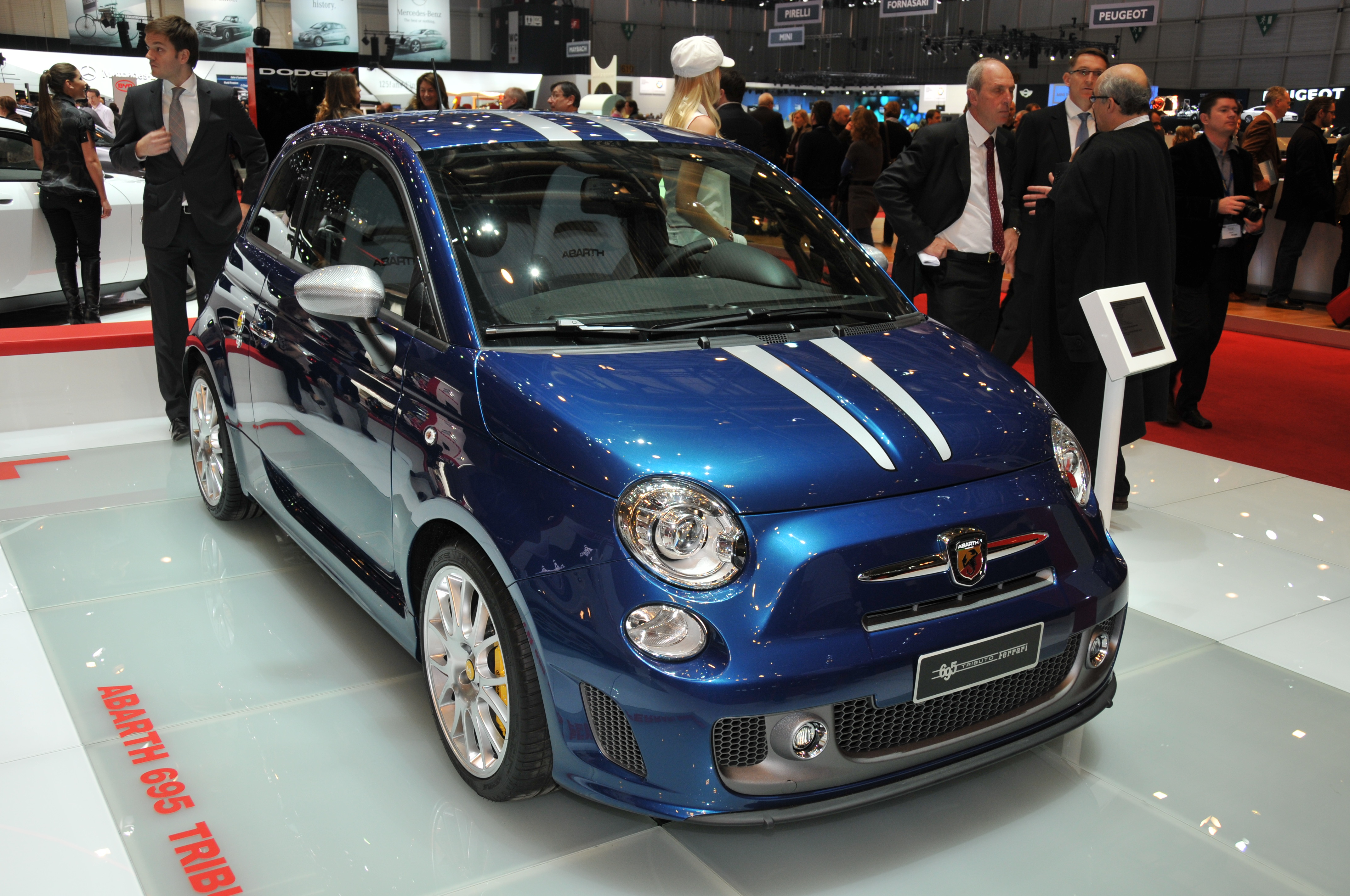 The Abarth 695 Tributo Ferrari at the 2011 Geneva Motor Show. For more info and images